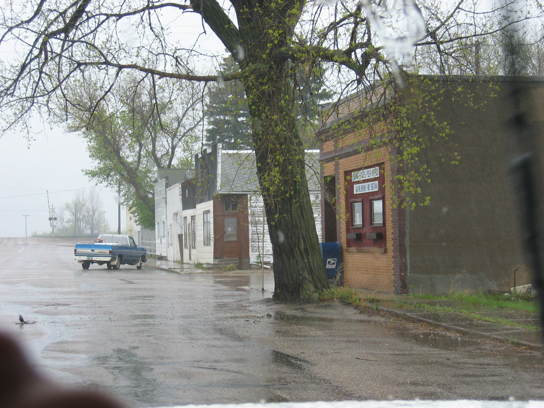 Personally photographed by the undersigned in Karlsruhe, North Dakota, on May 5, 2007